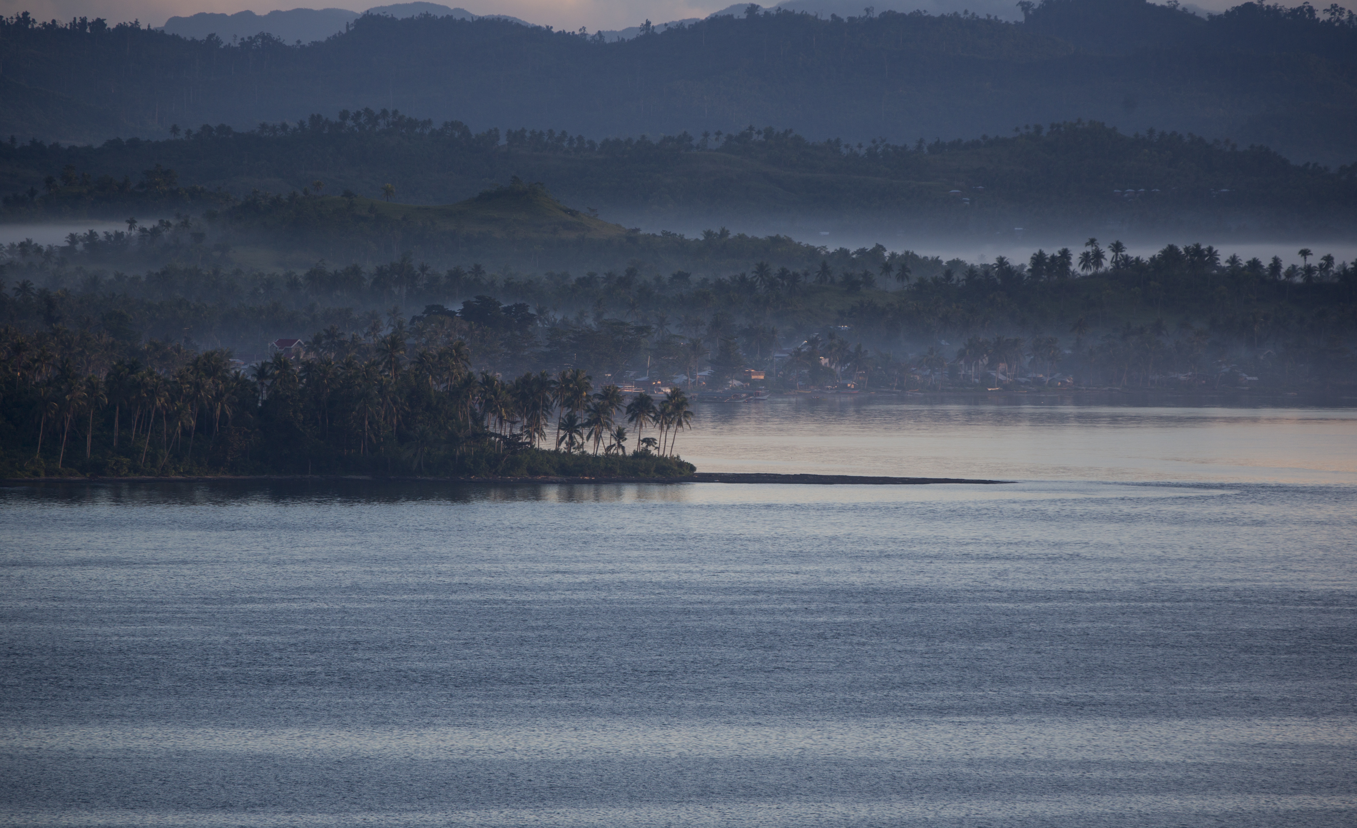 A thin layer of fog hangs over the mountains across the Cancabato Bay near the Tacloban City Port in Tacloban, Leyte, Philippines, during the early morning hours Nov. 18, 2014. A year after the relief and recovery efforts of Operation Damayan, following the catastrophic destruction caused by Super Typhoon Yolanda across portions of the Philippines, the people of Tacloban, one of the hardest hit areas, have continued to show their resiliency as they make every effort of returning to a normal way of life. (U.S. Marine Corps photo by MCIPAC Combat Camera Staff Sgt. Jeffrey D. Anderson/ Released)